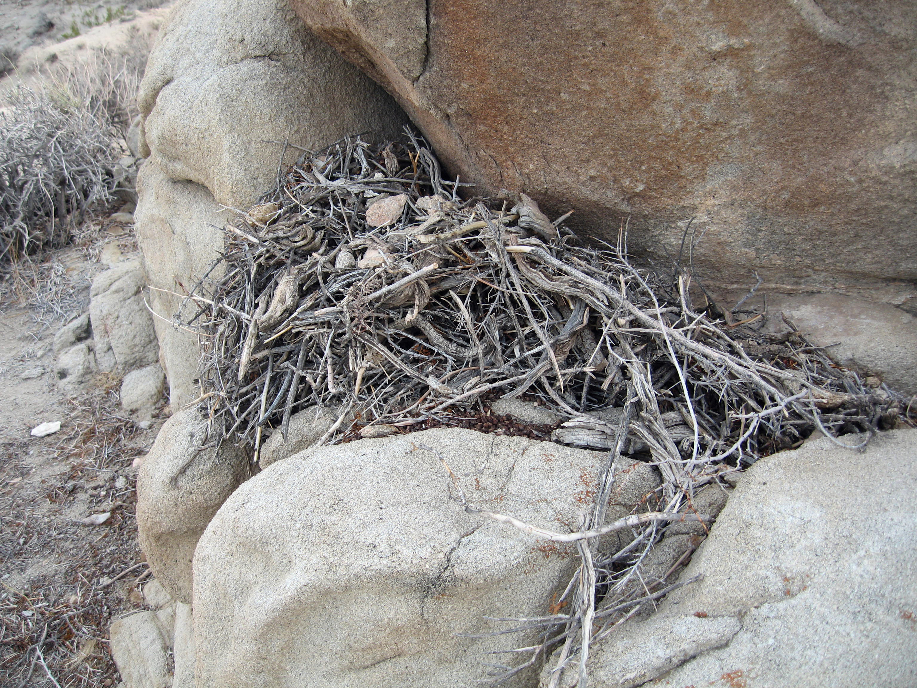 Mammals of Joshua Tree National Park: Wood rat (Neotoma lepida) midden